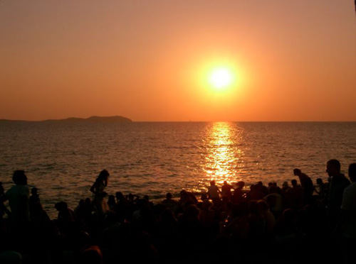 Sunset from Café del Mar in Ibiza. Taken with a Casio QV-R40 35mm